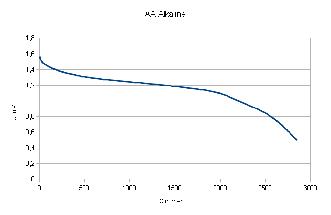 AA Alkaline battery. Voltage as a function of capacity when delivered power was around 100 mW. Compare with file:Aa-alkaline c-v.png Own measurements.